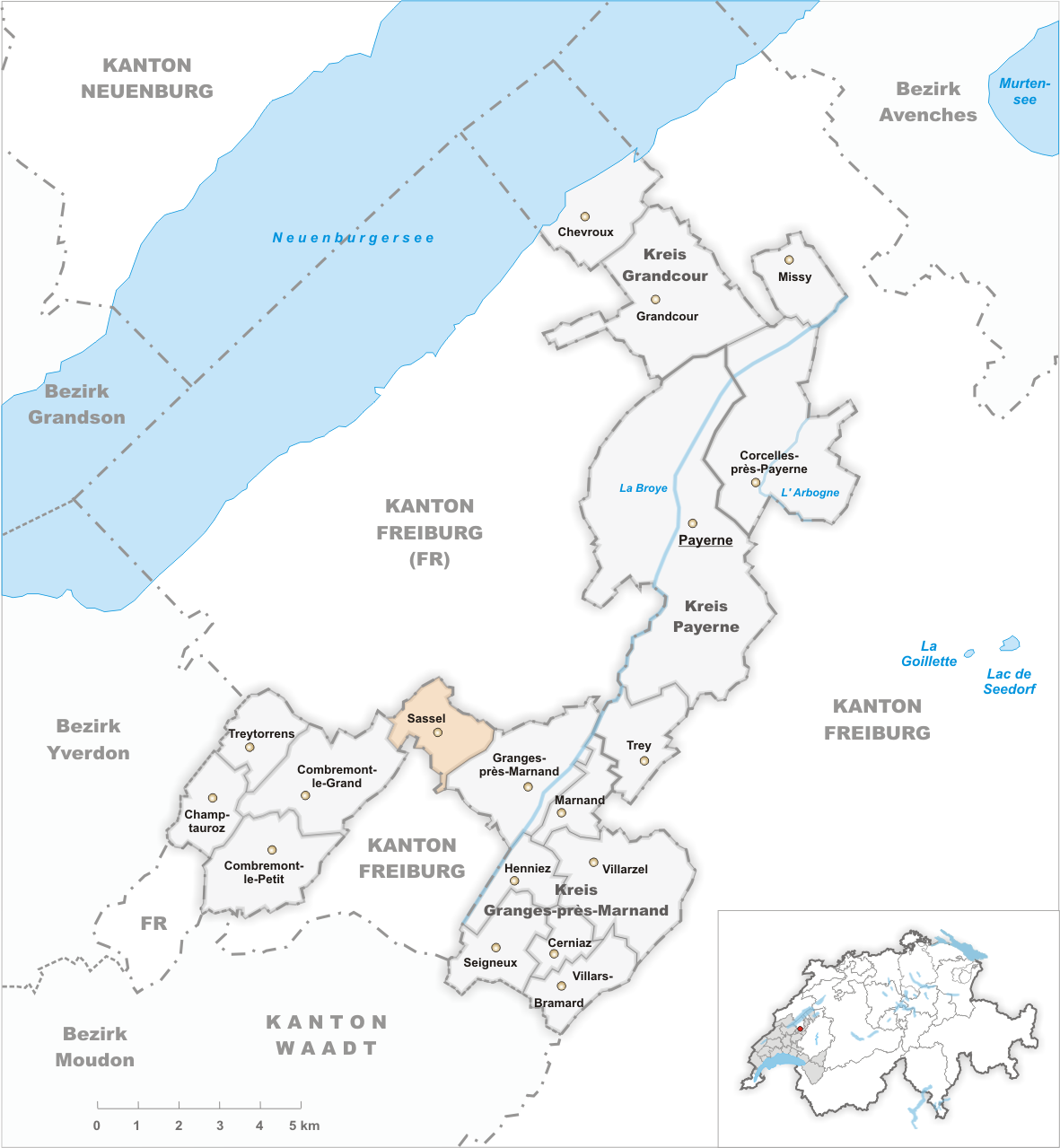 Municipality Sassel